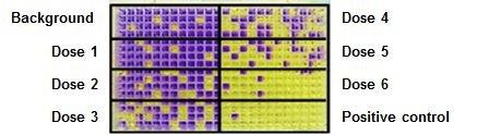 384-well plate used in the Ames MPF assay